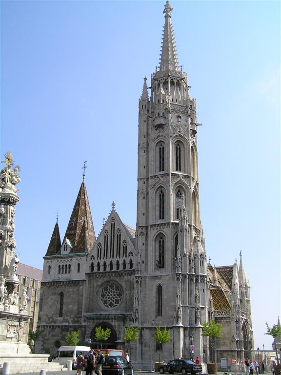 Photo: Bengt Olof ÅRADSSON